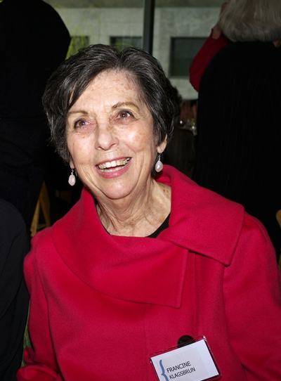 American author Anne Roiphe (left) with Francine Klagsbrun at the Jewish Women's Archive 2012 Making Trouble/Making History Awards Luncheon Photo: Joan Roth